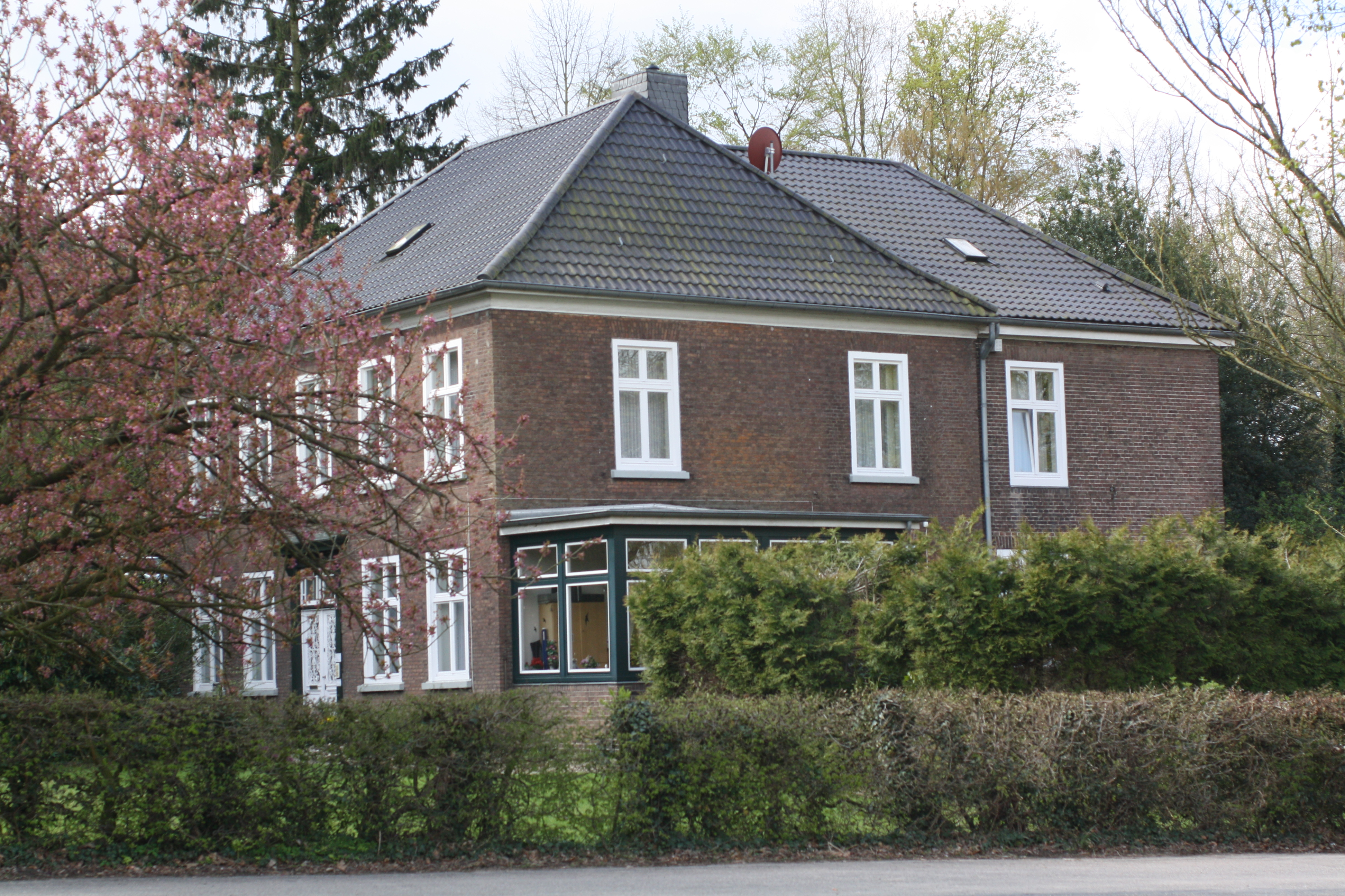 Rectory in Donsbrüggen, Cleves, North Rhine-Westphalia, Germany